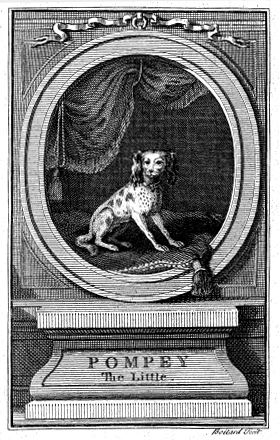 Front from Francis Coventry: The History of Pompey the Little; or, The Life and Adventures of a Lap-Dog, London 1751. Etching by Louis Boitard